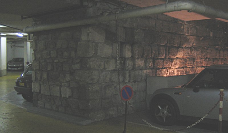 Paris, VIth arrondissement, wall of Philippe-Auguste in a car park.